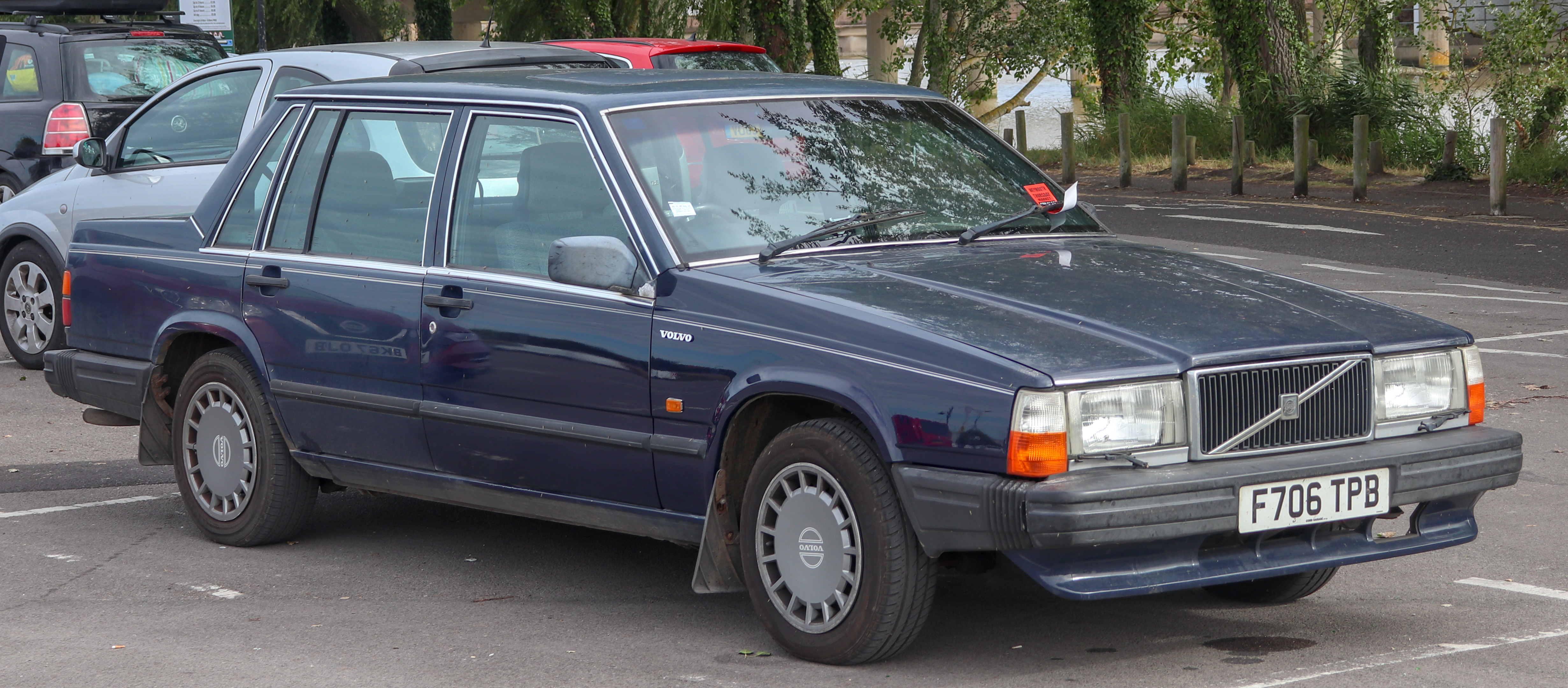 1989 Volvo 740 GL 2.0 Front Taken in Weymouth, Dorset